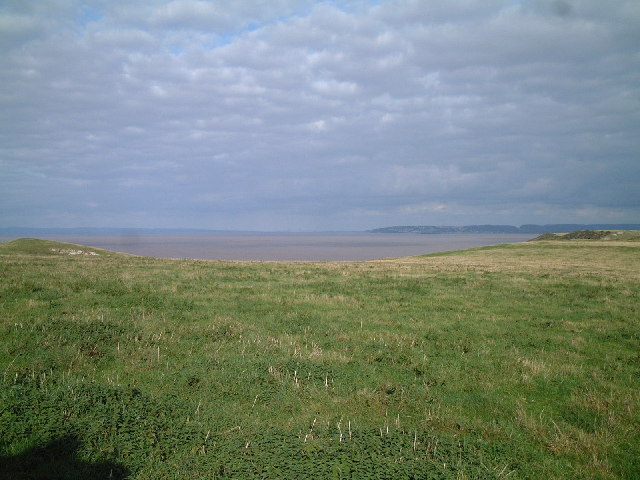 Middle Hope. National Trust area on the hill north end of Sand Bay